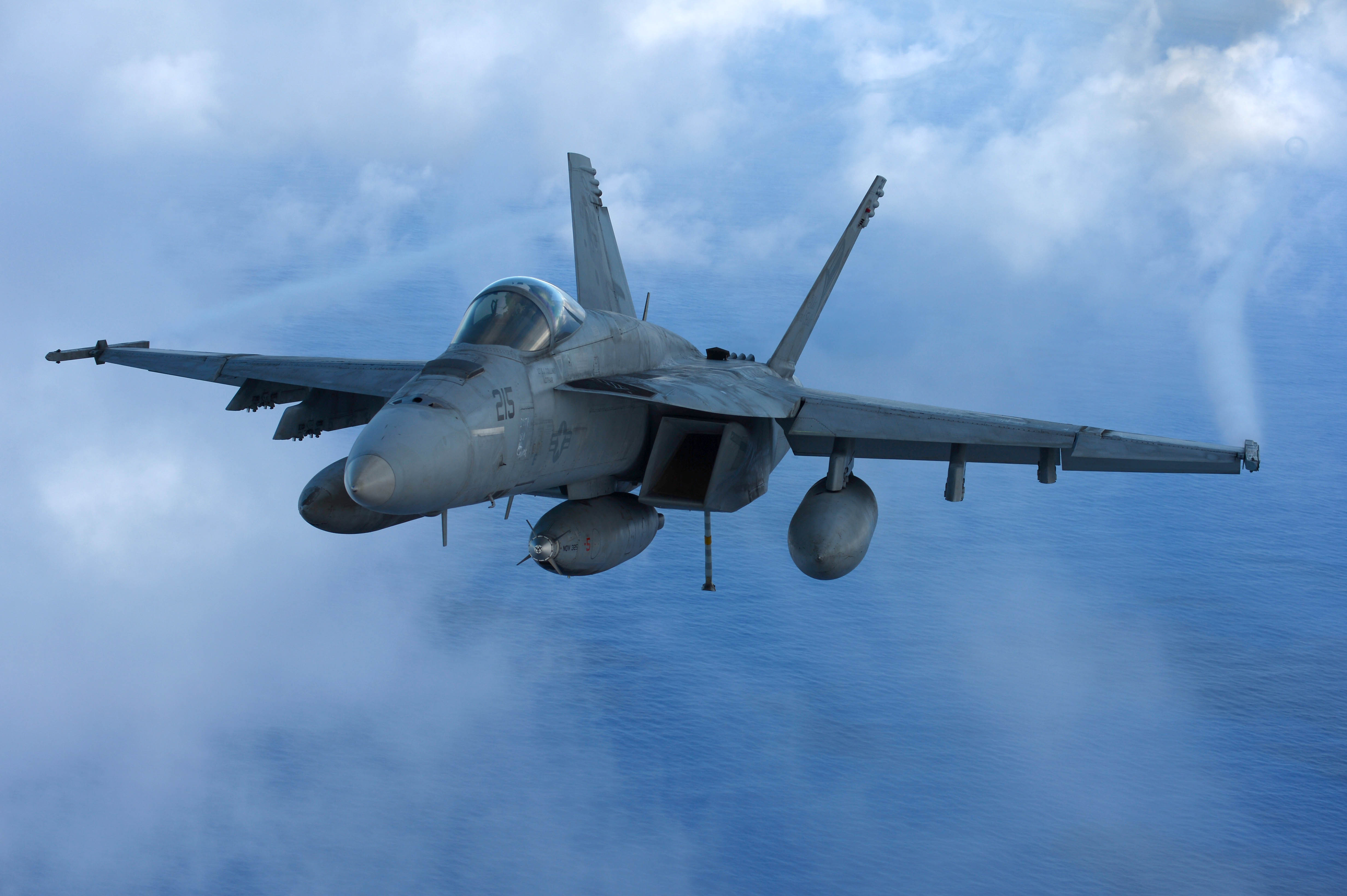 A U.S. Navy F/A-18E Super Hornet aircraft assigned to Strike Fighter Squadron (VFA) 14 participates in an air power demonstration near the aircraft carrier USS John C. Stennis (CVN 74), not shown, in the Pacific Ocean April 24, 2013. The John C. Stennis Carrier Strike Group was returning from an eight-month deployment to the U.S. 5th Fleet and U.S. 7th Fleet areas of responsibility.